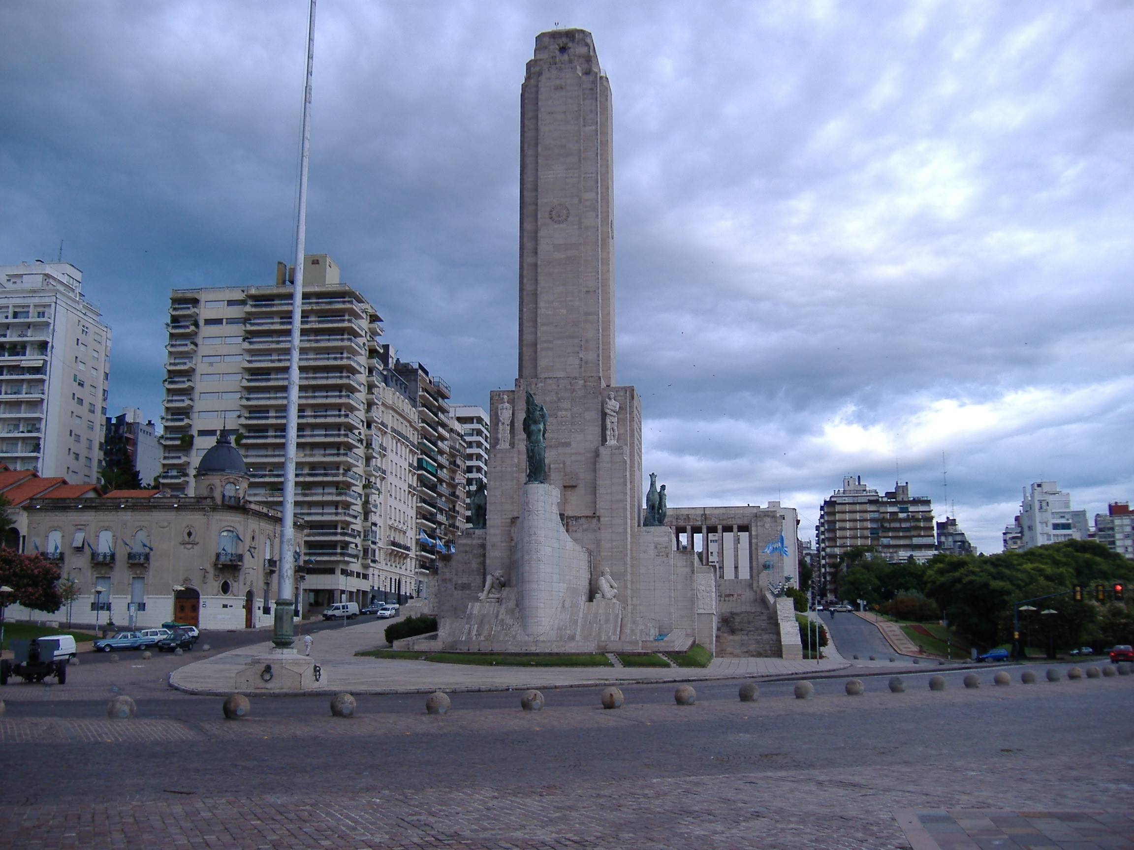 The National Flag Memorial (Monumento Nacional a la Bandera) in Rosario, Argentina, near the banks of the Paraná River. I, Pablo D. Flores, took this picture on 28 February 2006.